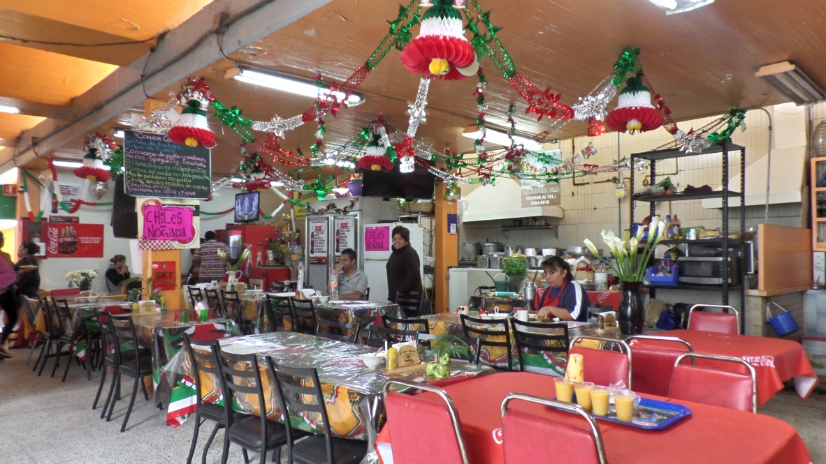 Fonda food, two rows of red and orange tables with black and red chairs, ceiling orange with Mexican ornaments , a kitchen with stove and refrigerator. Location, Colonia Condesa, Mexico City.